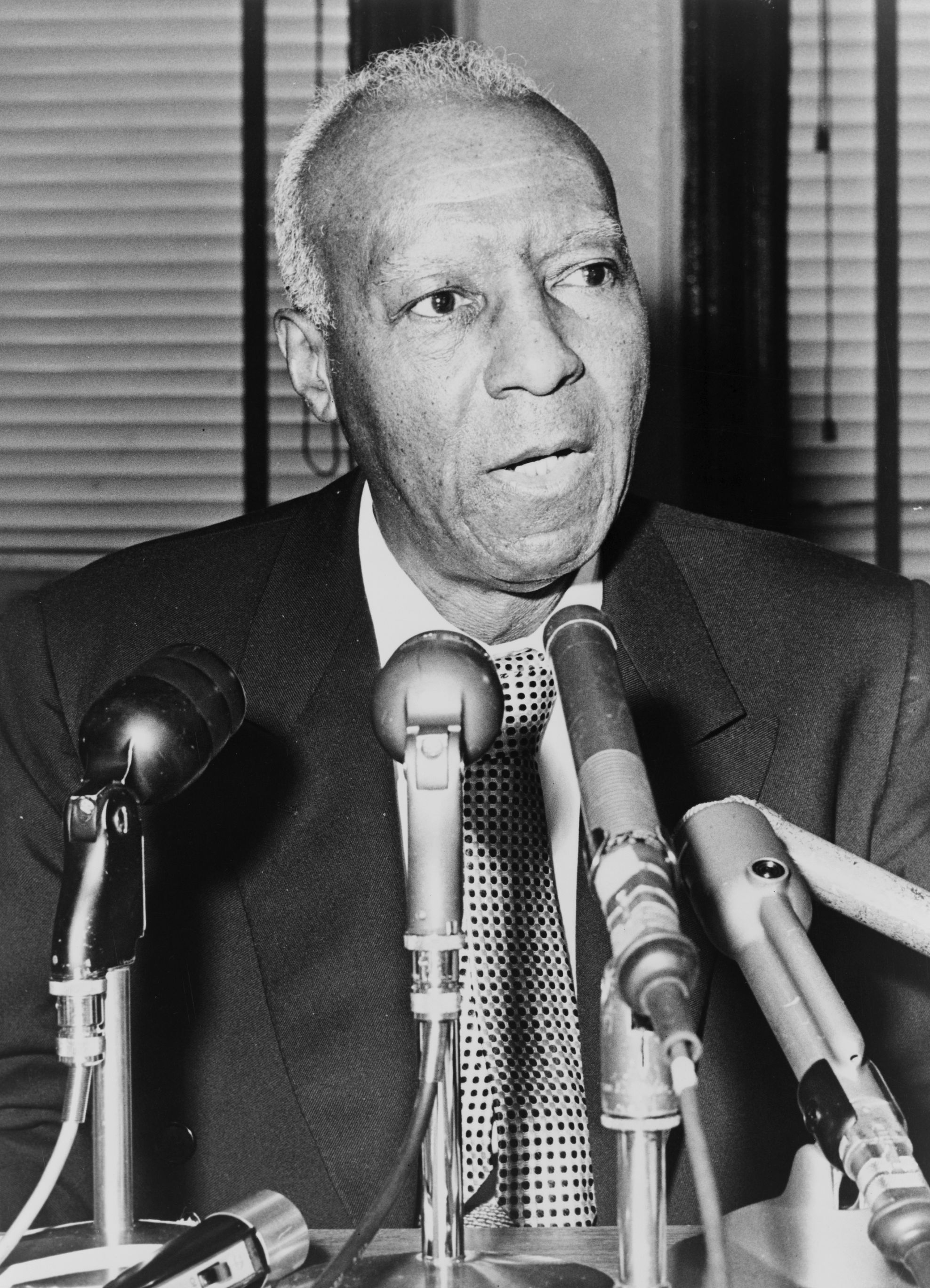 Asa Philip Randolph, half-length portrait, facing slightly right, behind microphones during a press interview / World Telegram & Sun photo by Ed Ford.